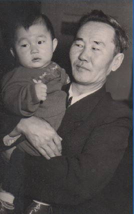 A scanned childhood photo of a prominent Mongolian economist, and politician, Ganbold Davaadorj with his grandfather Lodon.